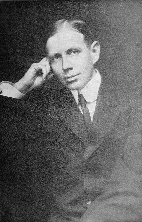 This is a scan of the frontispiece of Ernest Lanigan's 1922 book, Baseball Cyclopedia.